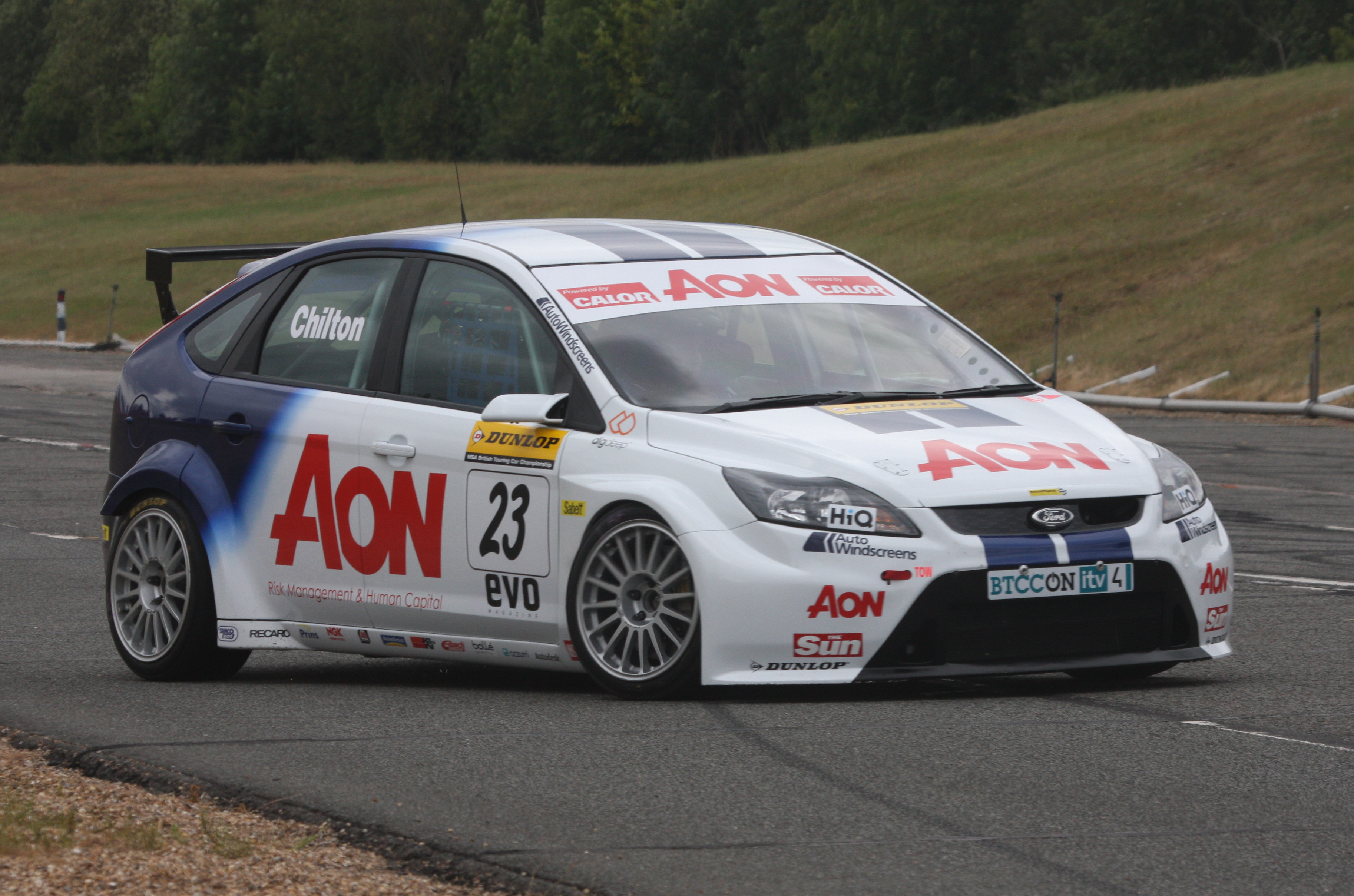 Team AON Ford Focus BTCCCalor Gas powered 2 litre Ford Duratec, built and prepared by Mountune Racing